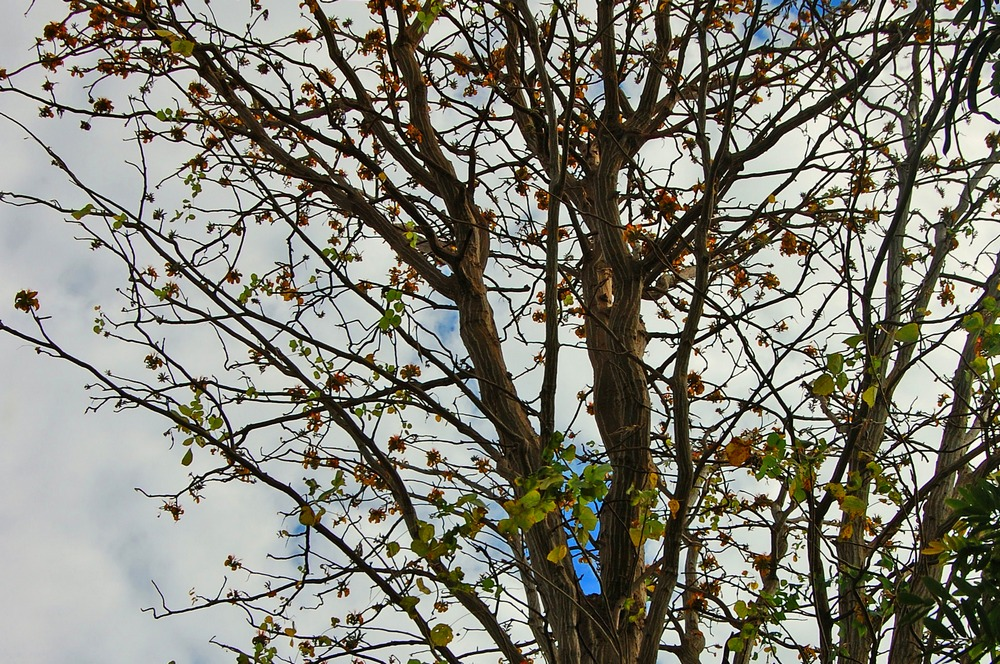 Flowering, Erythrina variegata defoliated tree. Kupang, West Timor, Indonesia.